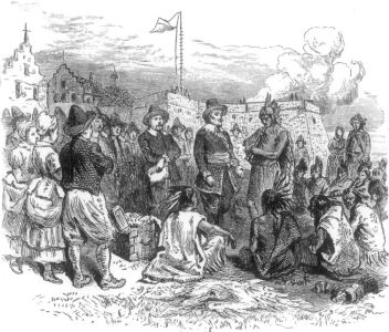 Shows New Netherland citizens smoking a peace pipe with local Indians, possibly at the end of Kieft's War.